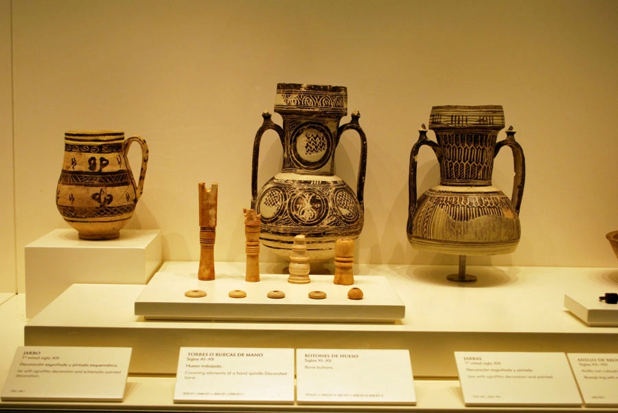 Hispano-Moresque ware found in the archaeological excavations of the Roman theatre of Cartagena, Spain.